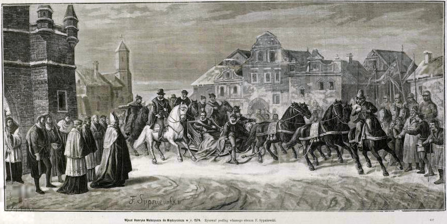 Feliks Sypniewski "King Henry of Valois arrives at Miedzyrzecze Castle". Black and White reproduction from 1920's of a color woodcut illustration for "Tygodnik Ilustrowany" weekly magazine, published in 1882.